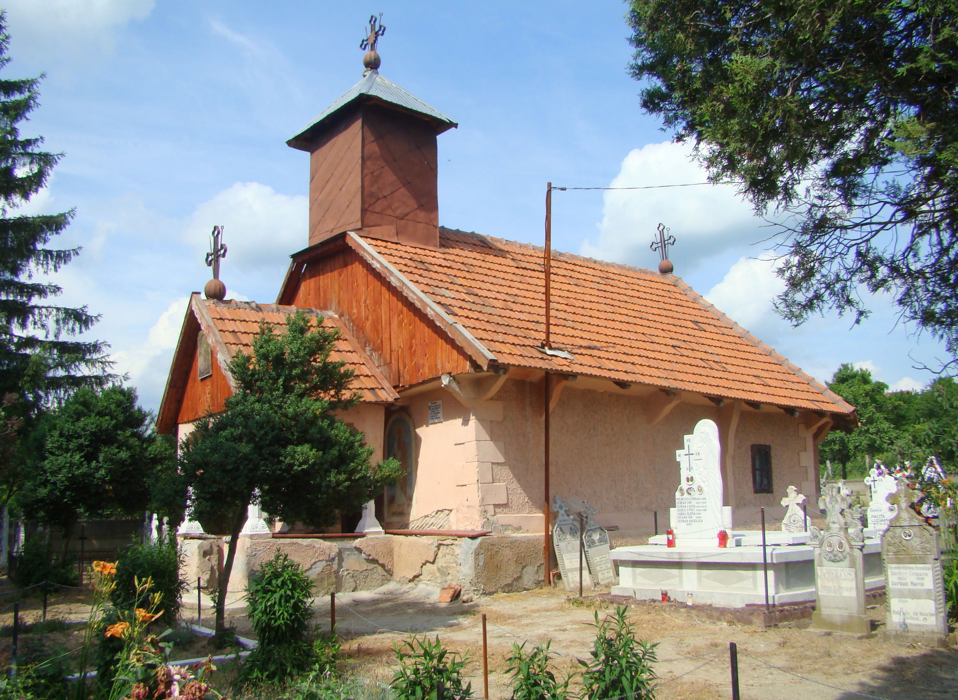 Wooden church in Lăzărești, Gorj county, Romania